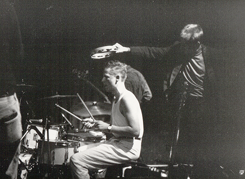 Photo of Danish band Alter Ego playing in "La Locomotive", Paris in 1987 .